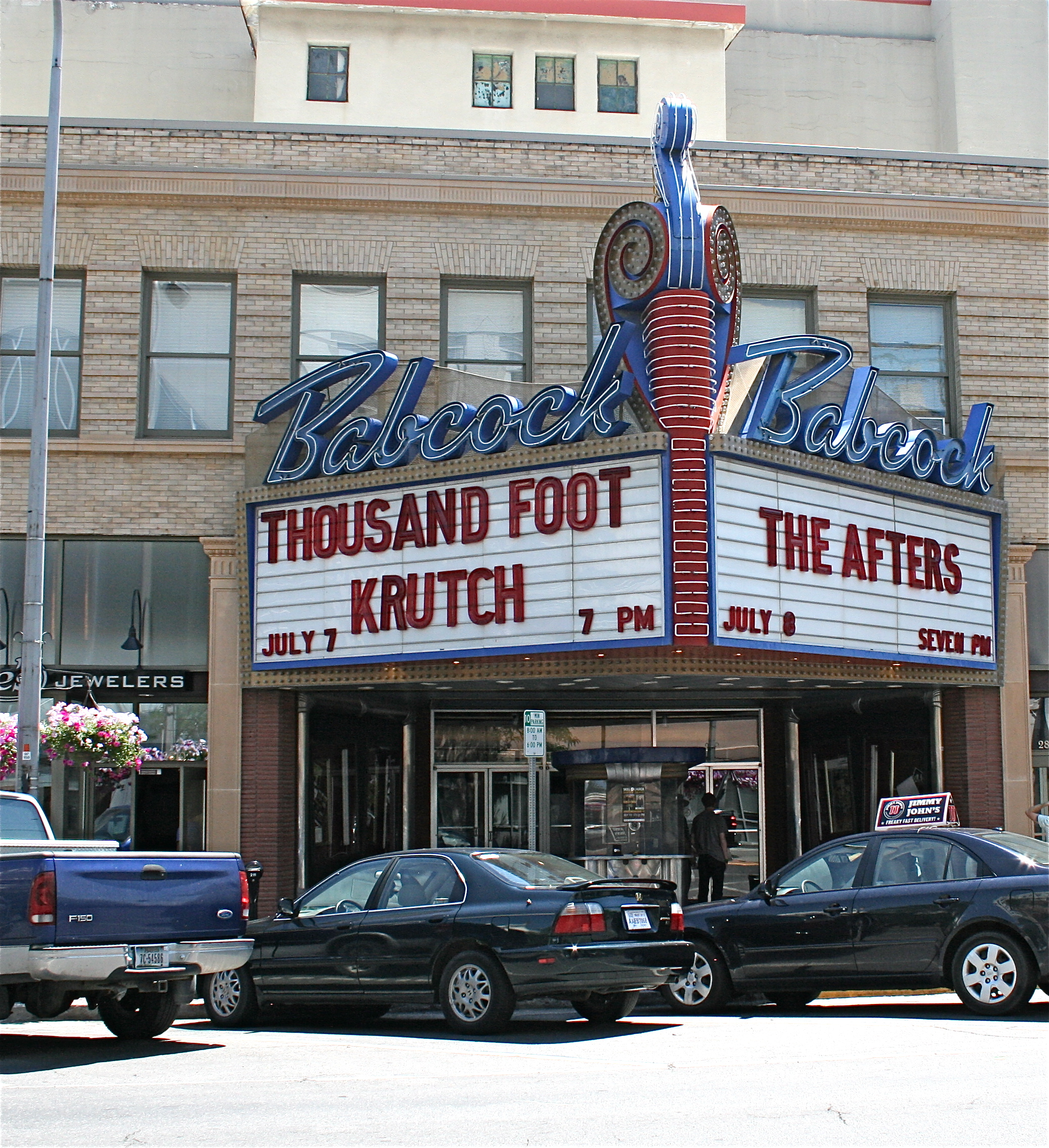 the historic Babcock Theater